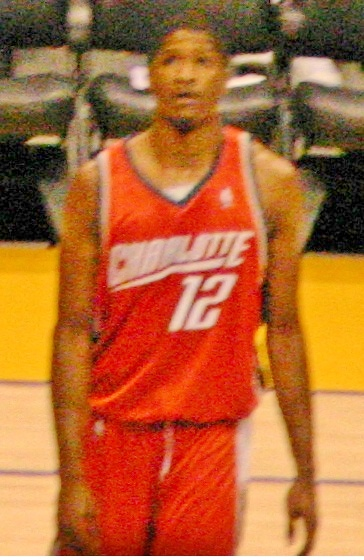 Los Angeles Lakers vs. Charlotte Bobcats preseason game, October 21, 2005. L-R: Kevin Burleson, Devin Green